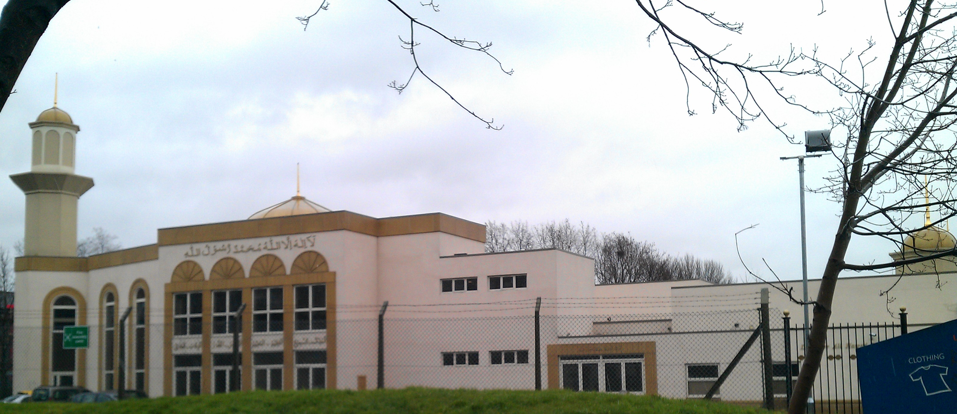 Darul Amaan Mosque, opened 2012